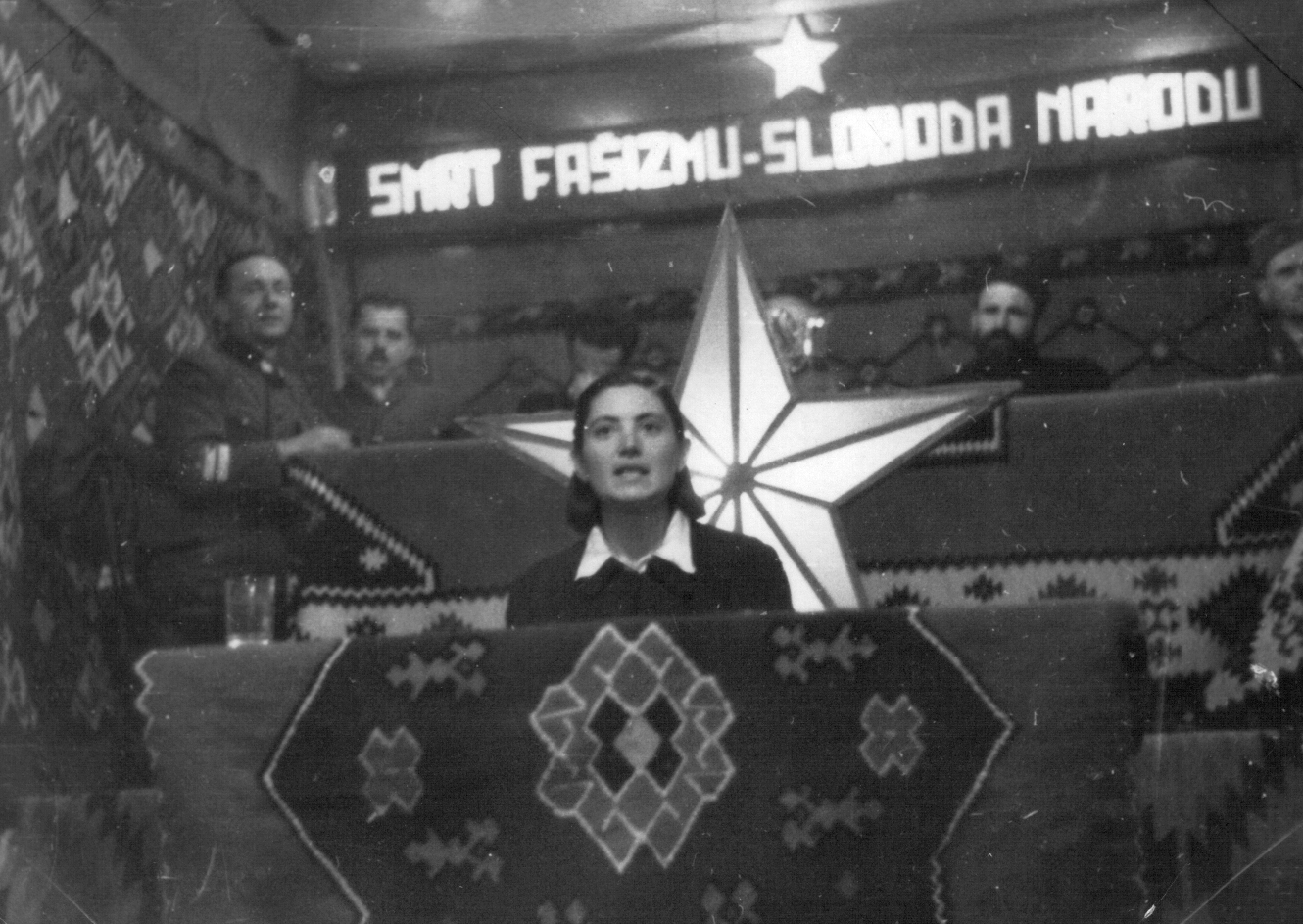 Rada Vranješević speaking at the State Anti-fascist Council for the National Liberation of Bosnia and Herzegovina. Srpskohrvatski / српскохрватски: Рада Врањешевић говори на првом засједању Земаљског антифашистичког вијећа народног ослобођења Босне и Херцеговине.